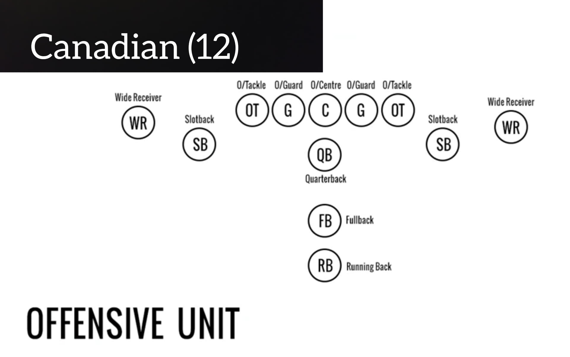 Positions correspond with official CFL rules.